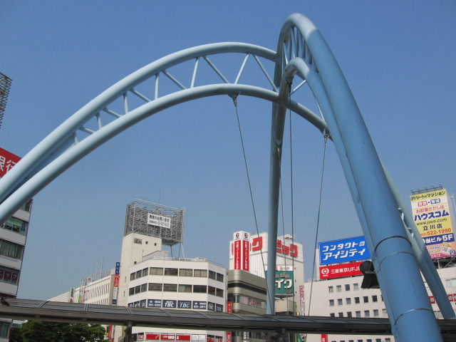 JR-East Tachikawa Station North-gate